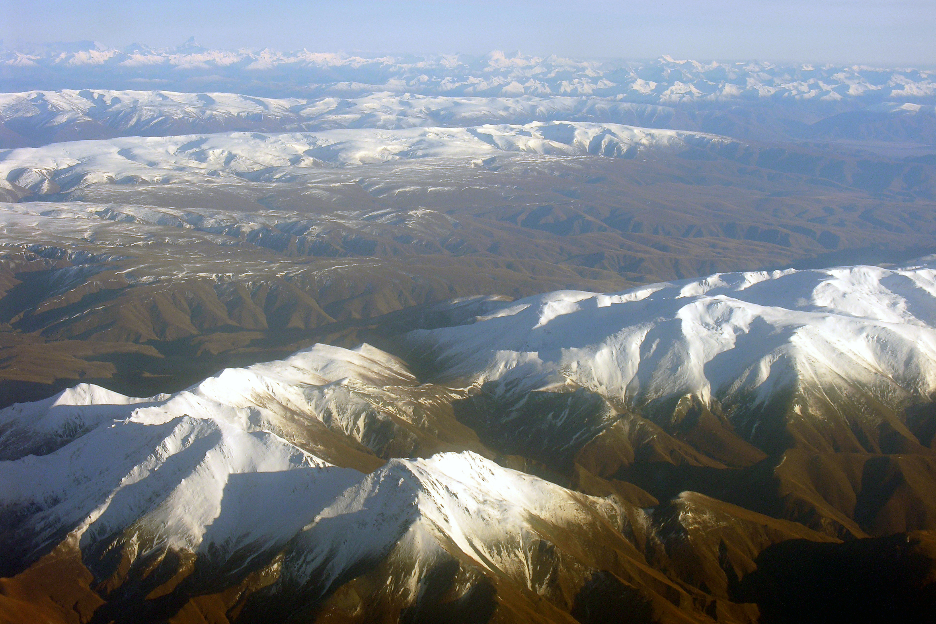 En route Christchurch to Invercargill - Central Otago, New Zealand